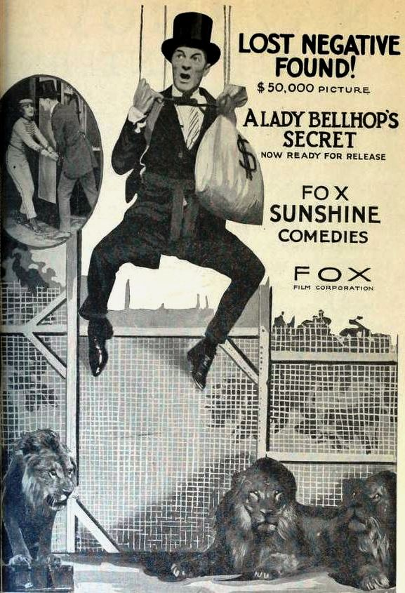 Ad for the American comedy short film A Lady Bell Hop's Secret (1919) with Hugh Fay (1882 – 1926) and Betty Carpenter (1899 – 1982), on the inside back cover of the April 27, 1919 Film Daily. The reference to the negative being found refers to its being stolen earlier that year from either the Los Angeles studio or while in transit by rail car.